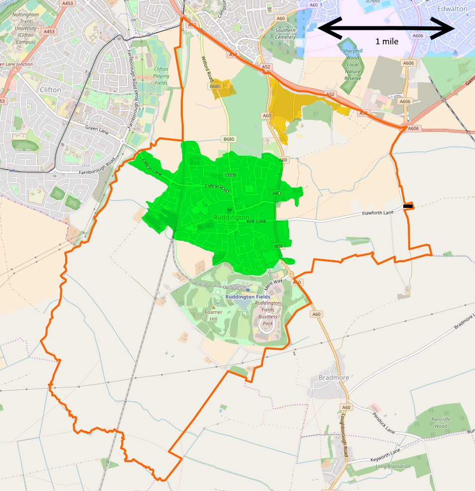 Showing boundary, also the village area (green), Grange (2 orange areas) and Flawford (black rectangle to right) areas